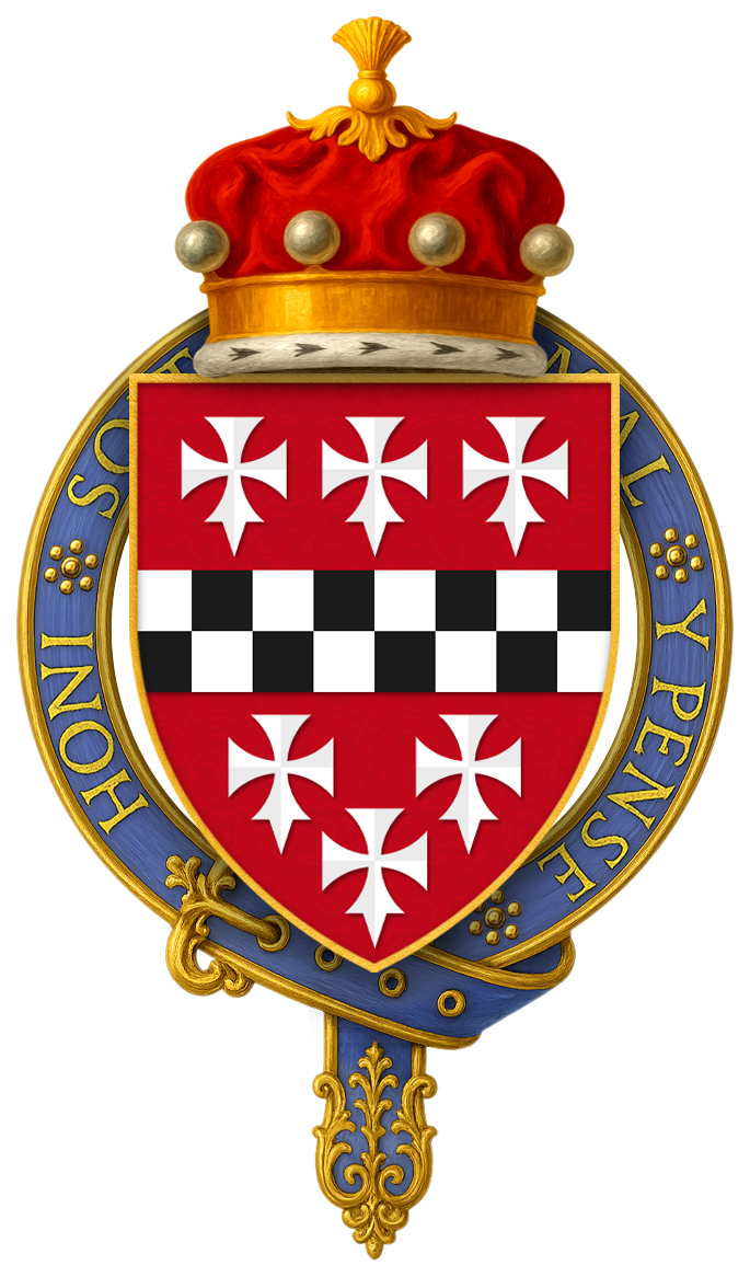 Sir Ralph Boteler, 1st Baron Sudeley, KG BURKE, Sir Bernard, The General Armory of England, Scotland, Ireland, and Wales: Comprising a Registry of Armorial Bearings from the Earliest to the Present Time, London: Harrison & sons, 1884. BURKE, Sir Bernard, A Genealogical History of the Dormant, Abeyant, Forfeited, and Extinct Peerages of the British Empire London: Harrison, 1866.